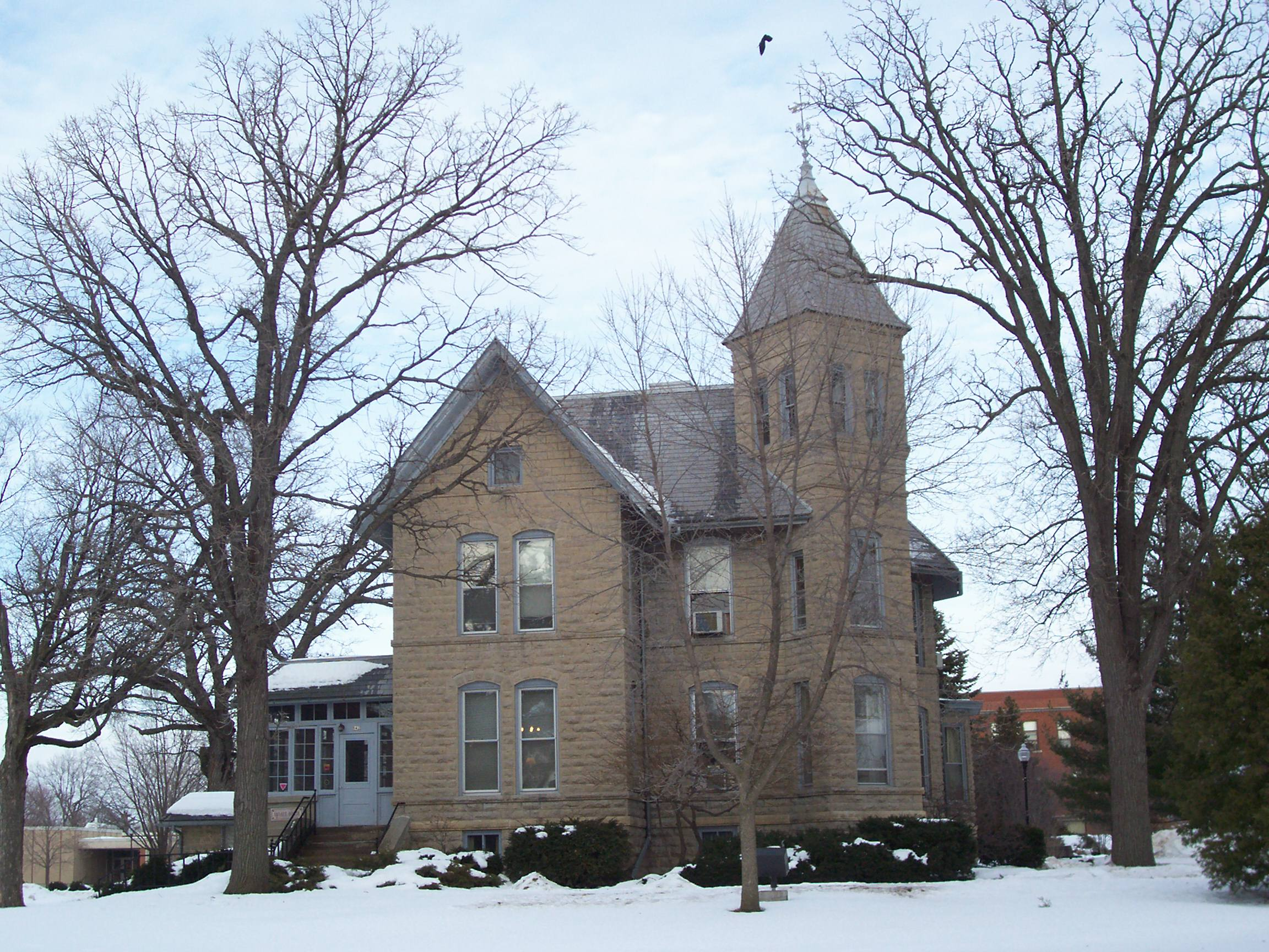 Oviatt House on the campus of the University of Wisconsin-Oshkosh. It is a nationally registered place.